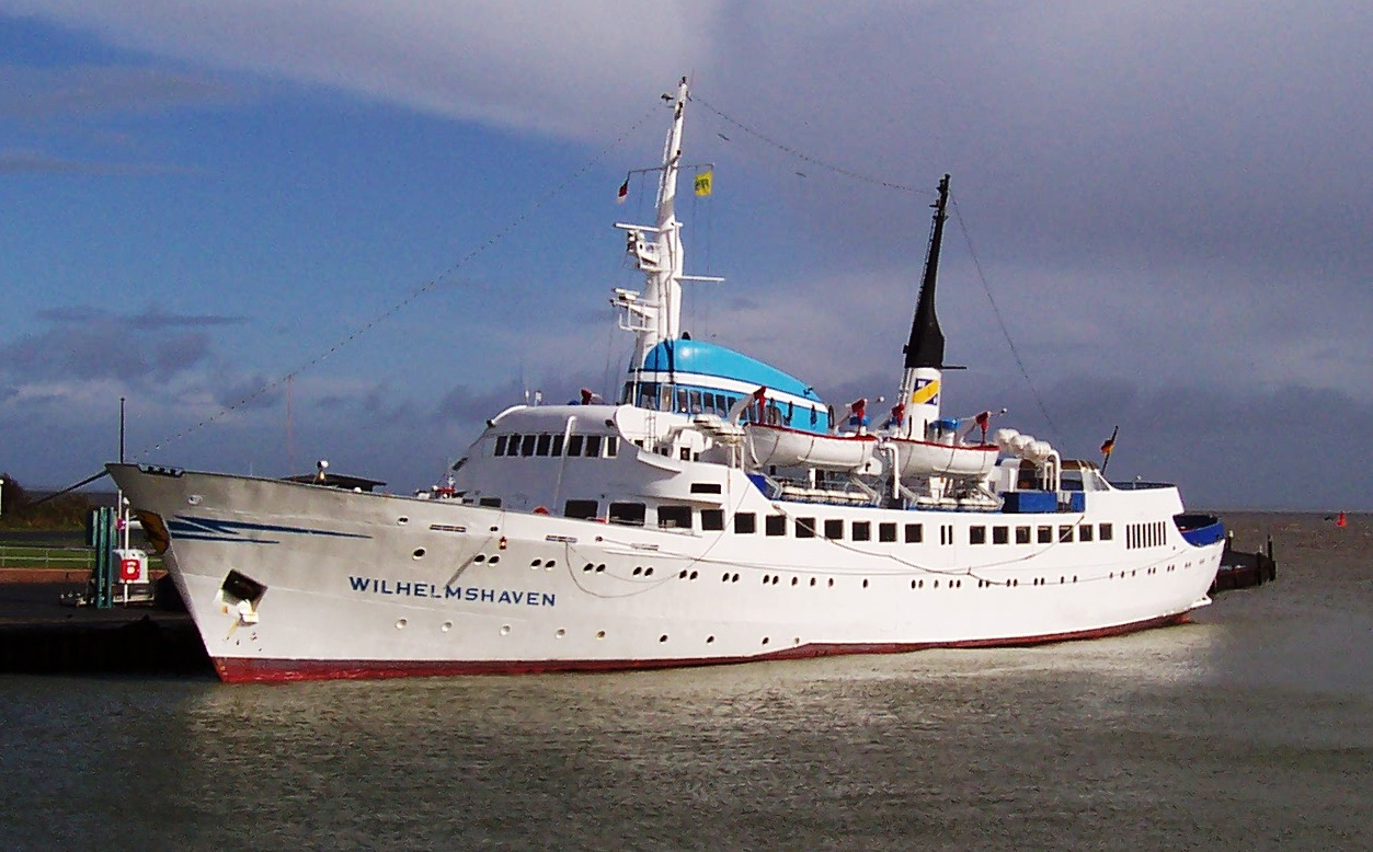 Heligoland ferry Wilhelmshaven alongside Helgoland-Kai (Heligoland wharf) in Wilhelmshaven